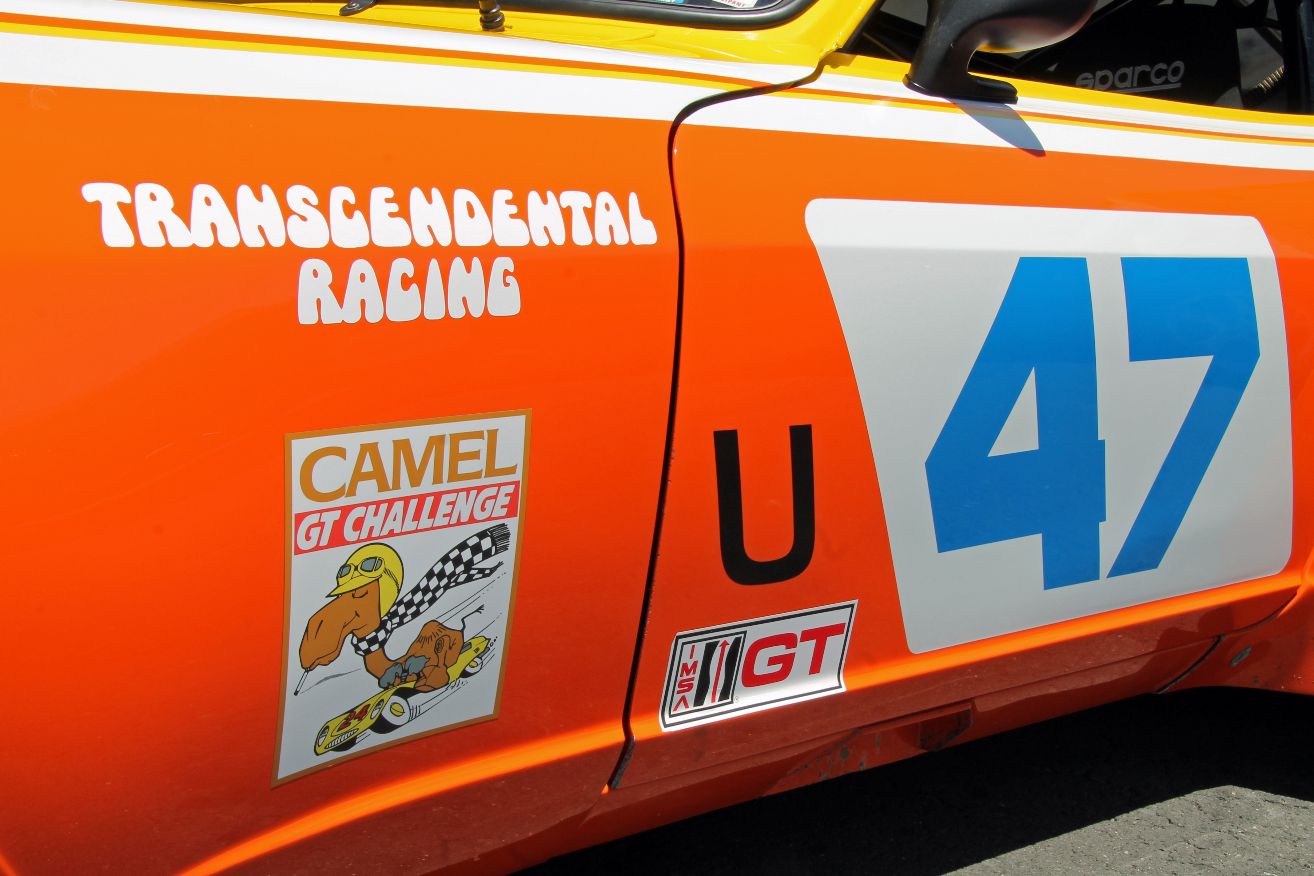 1976 Datsun 240Z. This was driven by Brad Frisselle of Transcendental Racing. 2015 Sonoma Historic Motorsports Festival, Sonoma, California